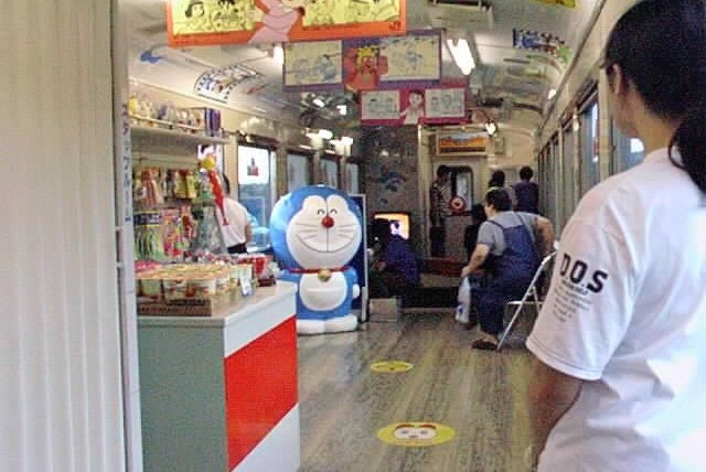 Inside of "Doraemon Car"